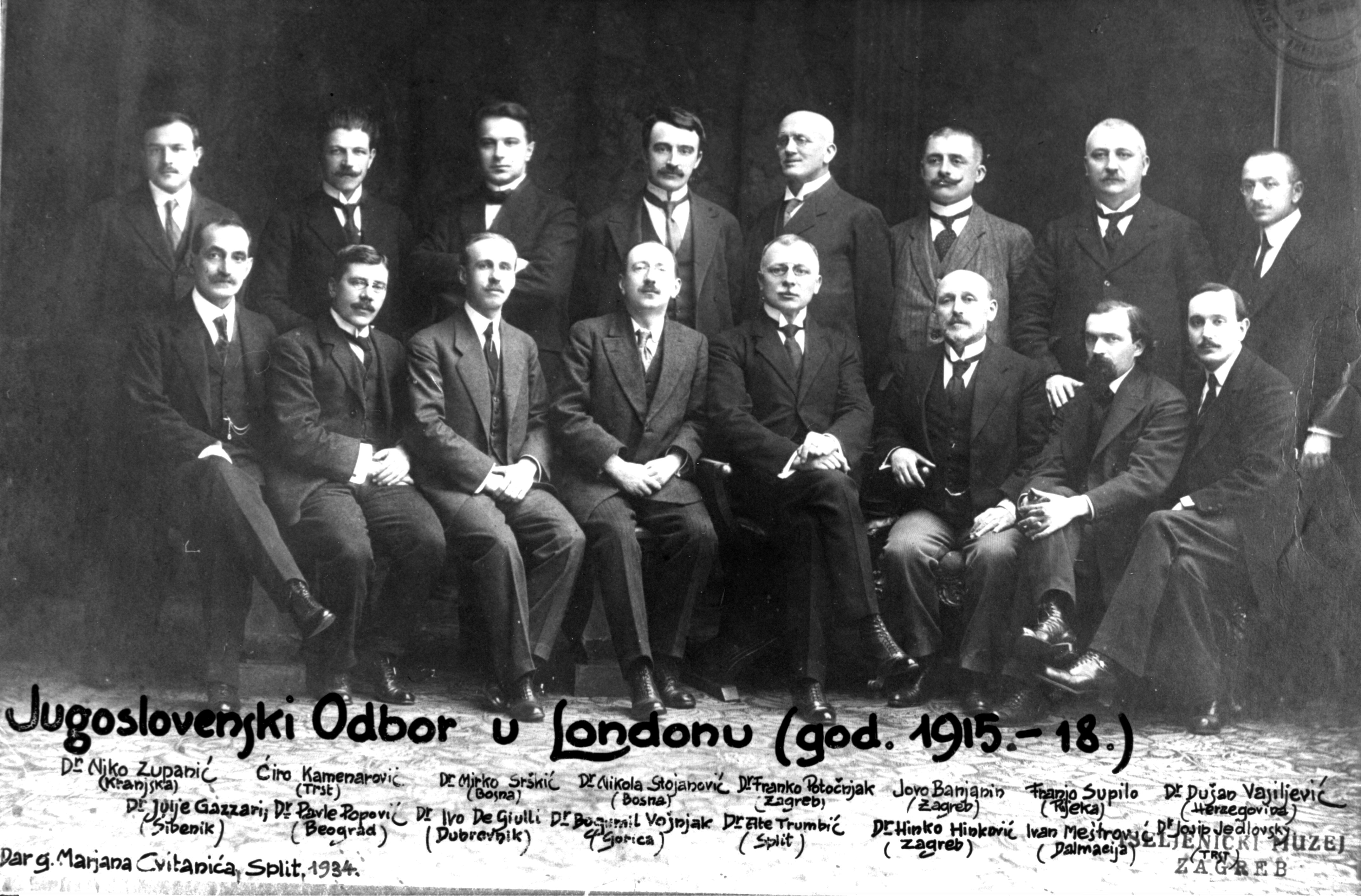 Yugoslav Committee (Serbo-Croatian: Jugoslavenski odbor) in London, 1916.